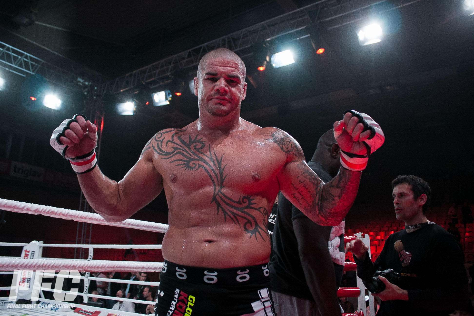 Englishman James McSweeney at FFC10 in Ljubljana.